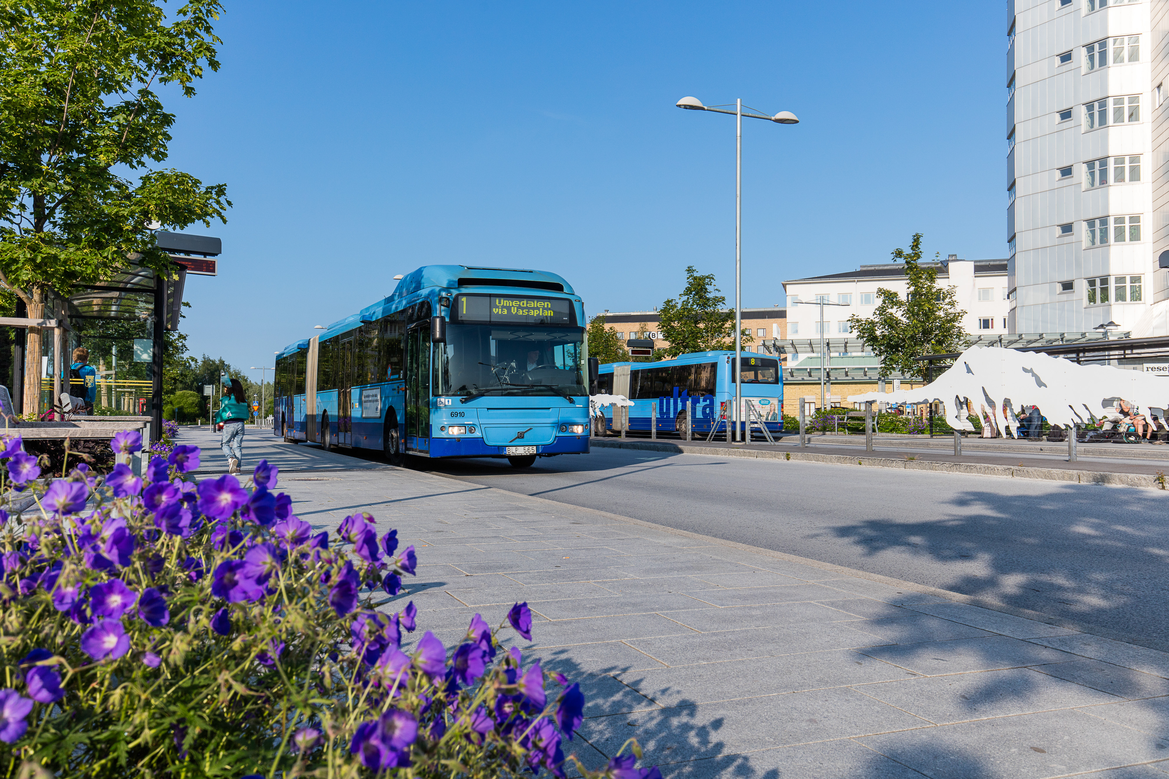 The bus terminal at David Naezéns gata by the University Hospital of Umeå, is one major hub for local buses in Umeå.